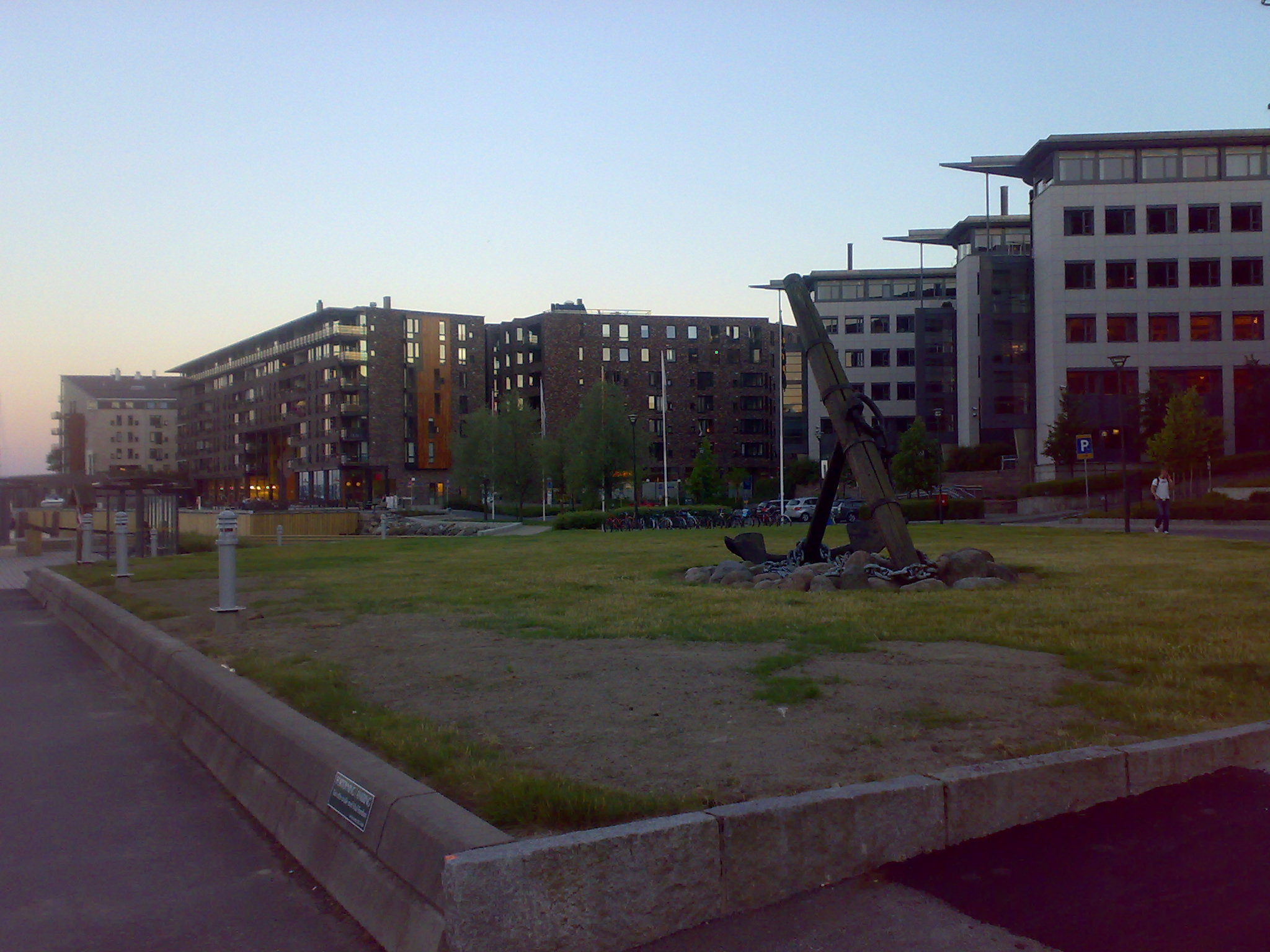 Lysaker Brygge, Baerum, Norway